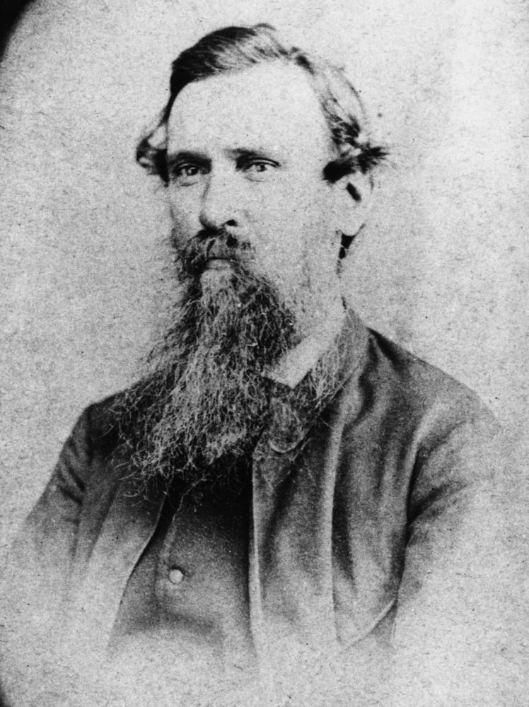 Thomas Blacket Stephens, 1867. Thomas Blacket Stephens was the proprietor of the Moreton Bay Courier newspaper from 1859 to1869 and renamed it The Courier. He later founded The Queenslander newspaper in Brisbane. He was born at Rochdale, Lancashire, England, on 5 January 1819 and arrived in Sydney on the Bengal in 1849. Stephens established himself as a wool broker and on 24 January 1853 he moved to Brisbane and set up an export business. On 10 July 1856 he married Ann Connah, with whom he had twelve children. Stephens was involved in the foundation of Brisbane Grammar School, and was the first Chairman of its Board of Trustees from 1869 until 1871.